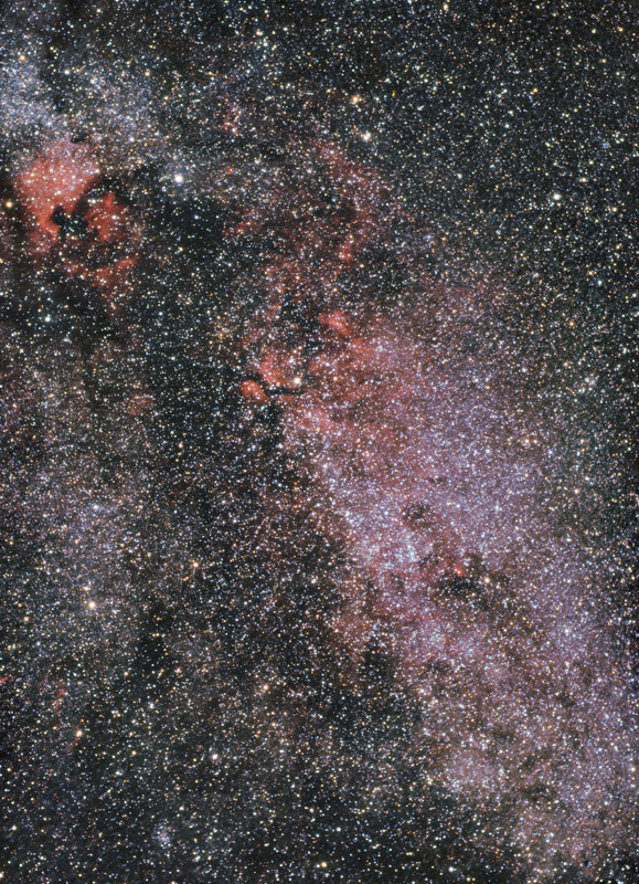 Constellation Cygnus taken with Pentax 6x7 medium format camera and 150mm lens. Total exposure time was over 2 hours on diapositive film. Taken from Petrova Gora, Croatia